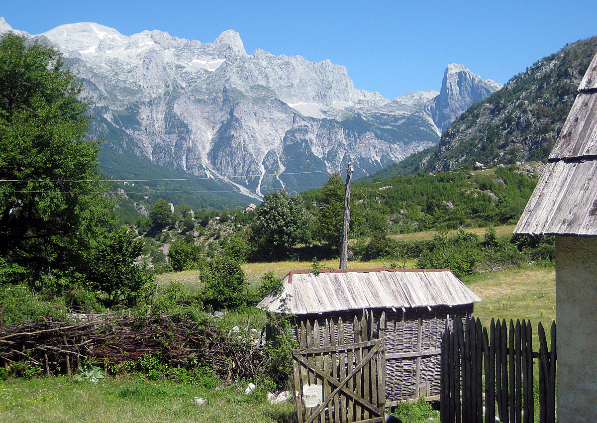 Village of Theth (Grunas), Northern Albania, with Maja Radohimës (left, 2570 m) and Maja Harapit (right)